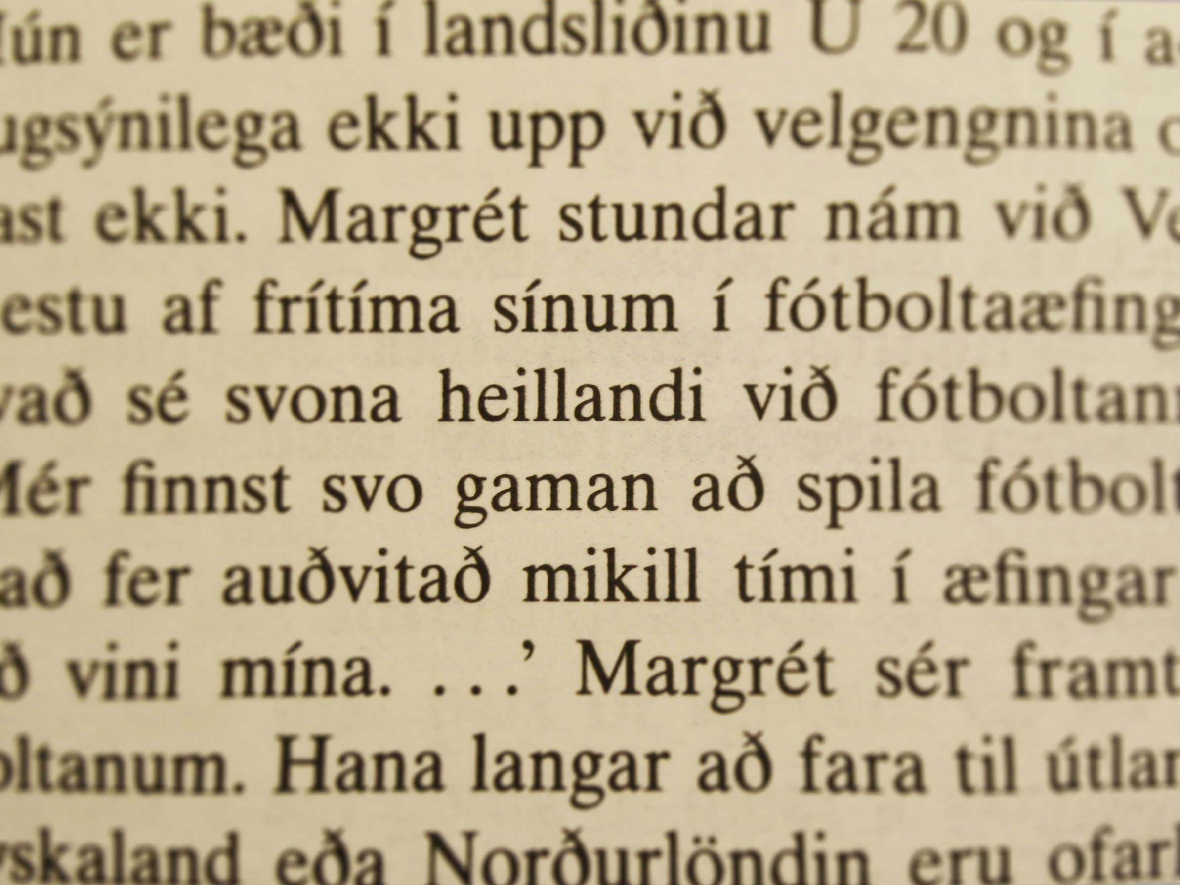 A photograph of a text in Icelandic, photograph taken from page 206 of Colloquial Icelandic by Daisy L. Neijmann